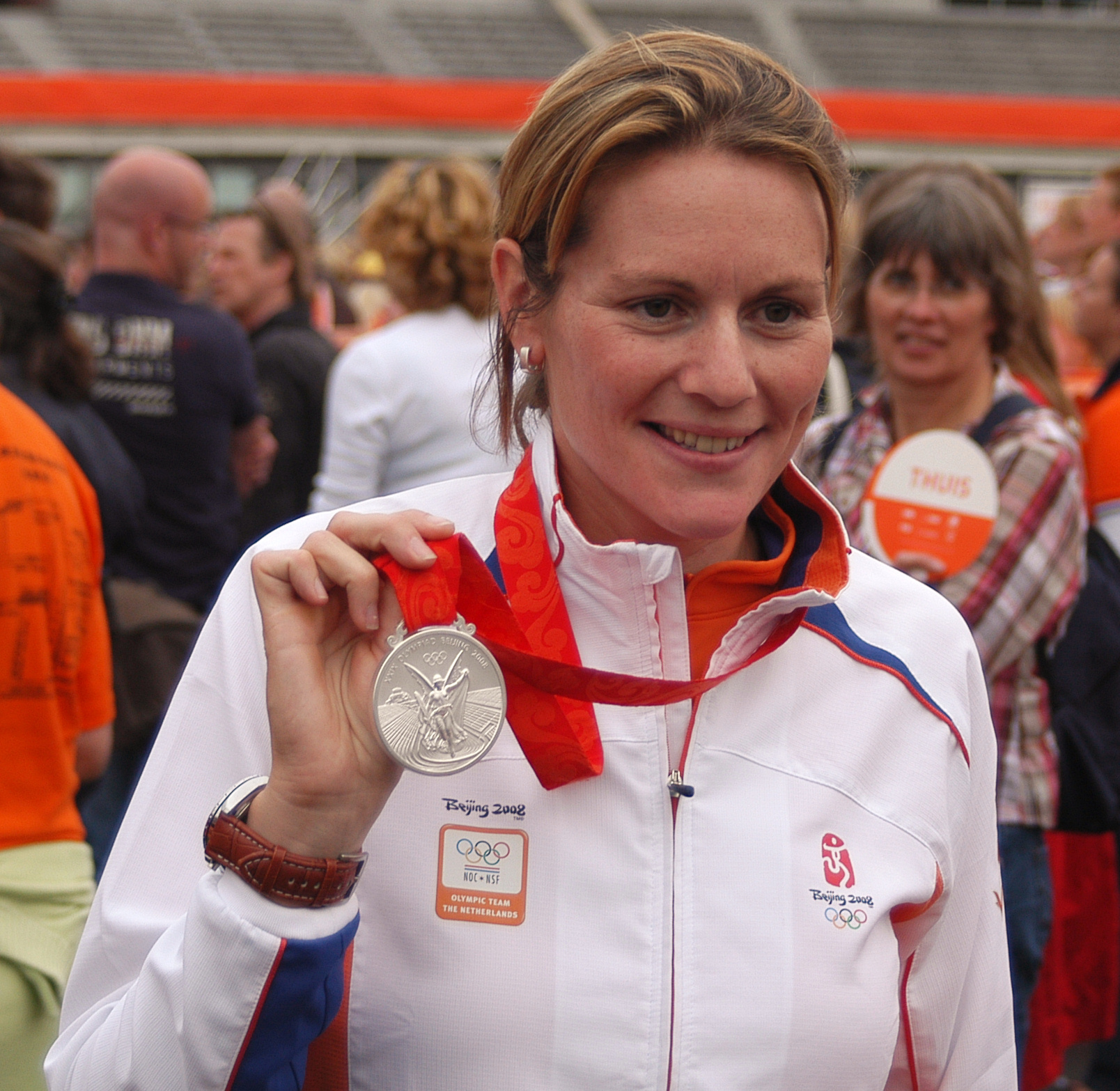 Femke Dekker at the Olympic welcome in the Olympic Stadium in Amsterdam, the Netherlands